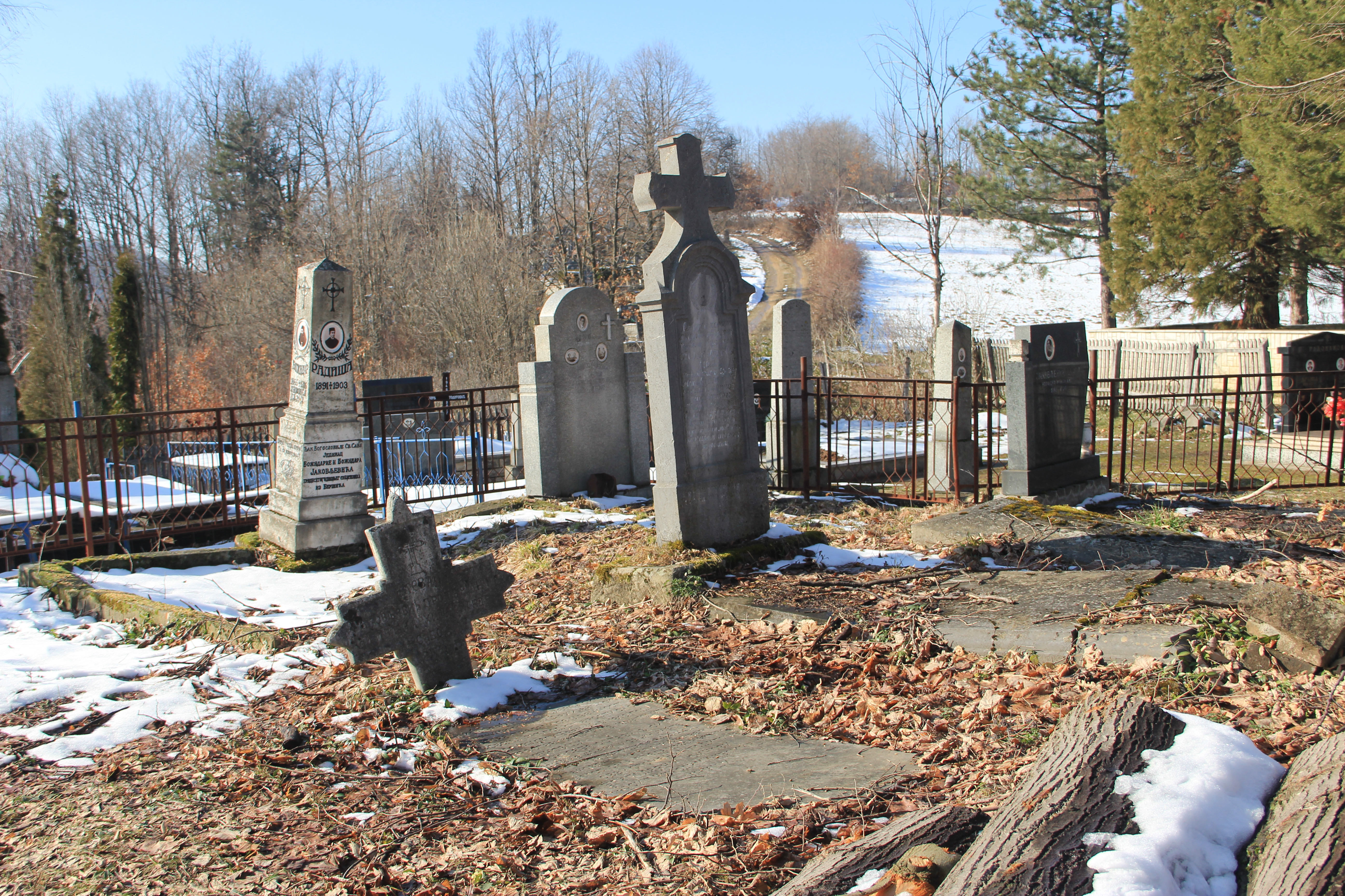 Old gravestones at the cemetery in the village of Bersici (the municipality of Gornji Milanovac), Serbia.